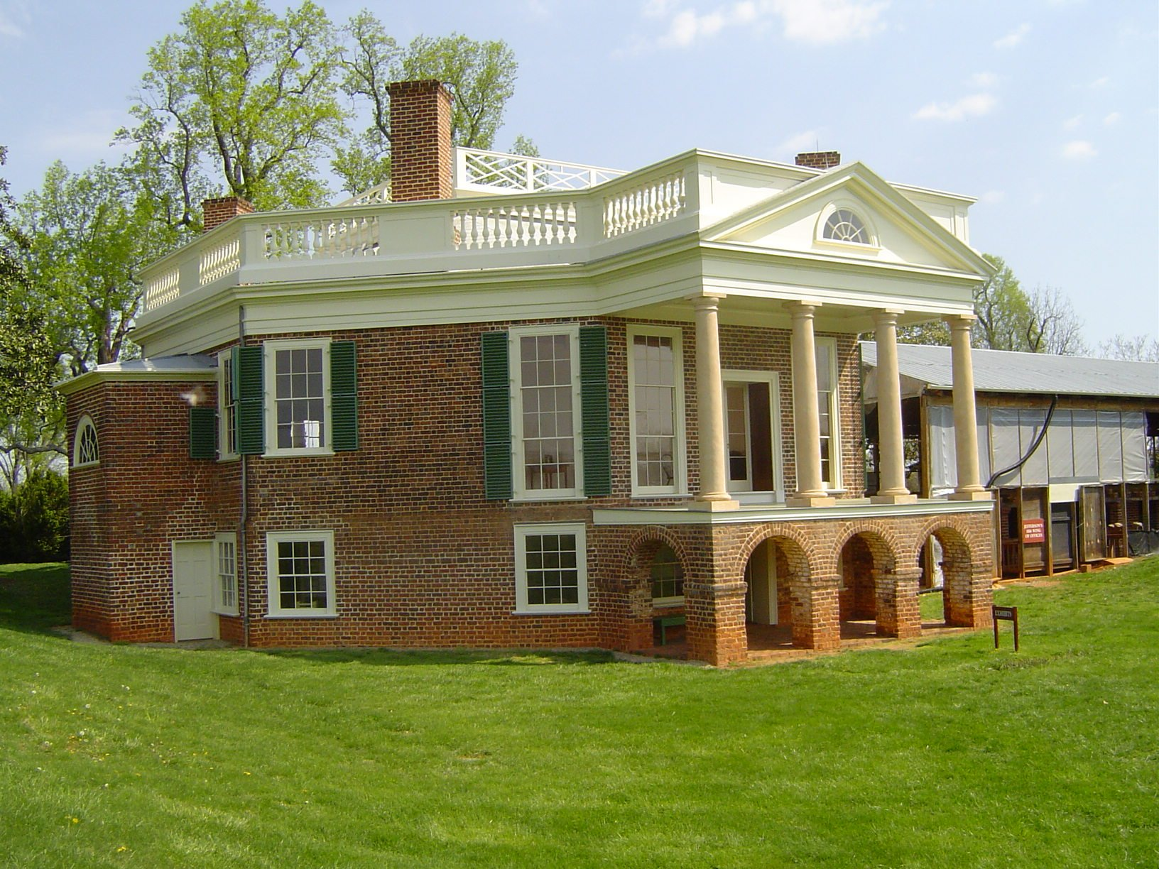 Thomas Jefferson's Poplar Forest